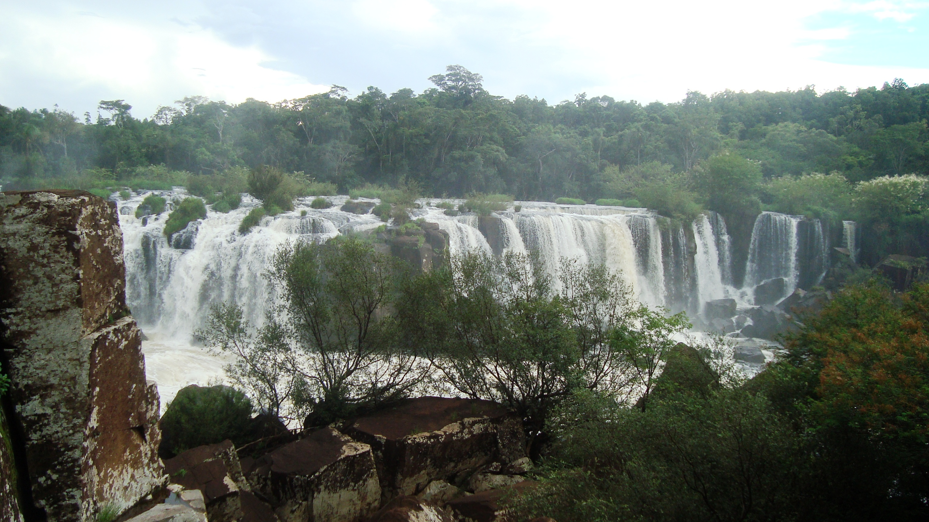 cachoeira localizada no município de Quilombo - SC